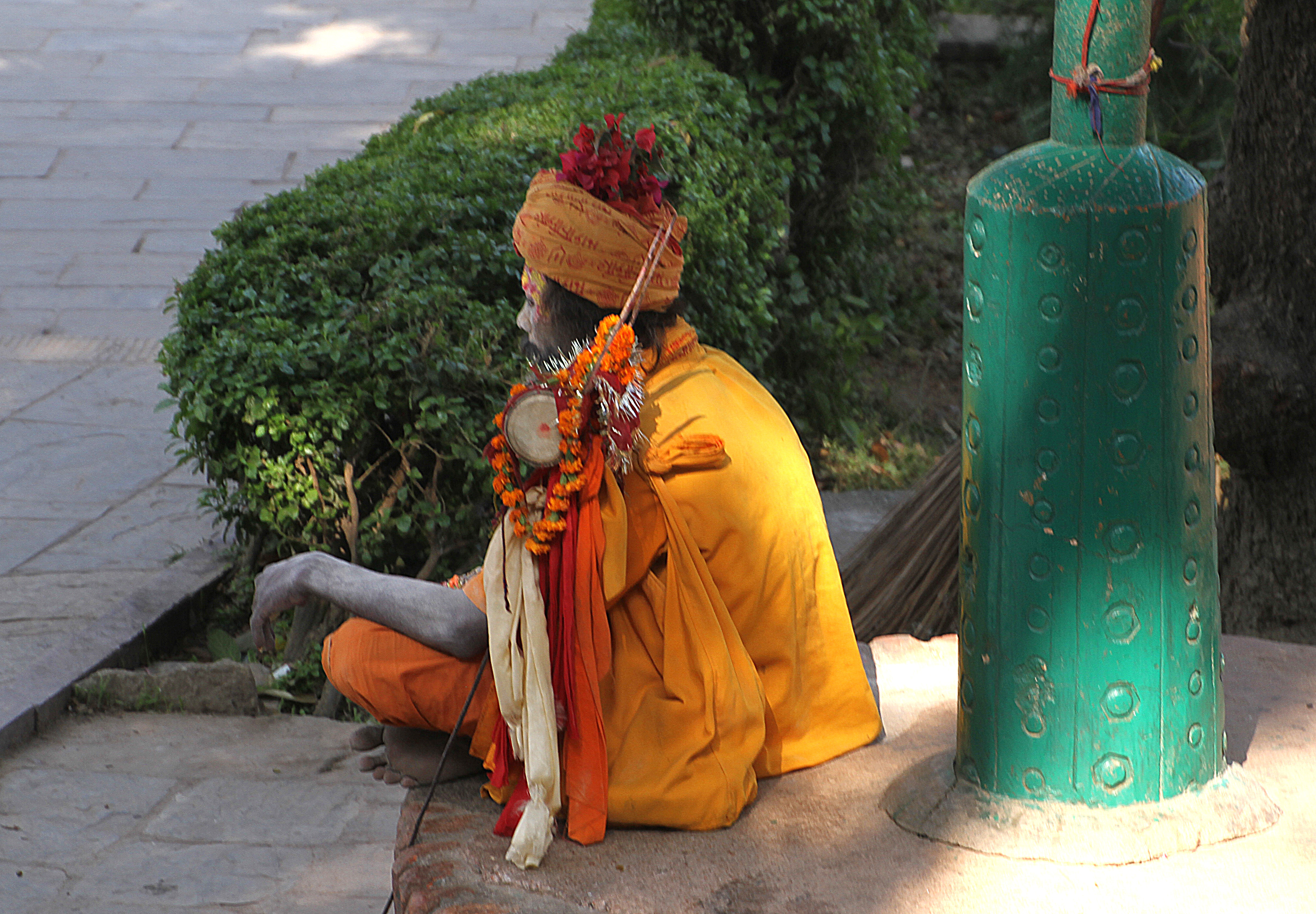 People in Swayambhunath